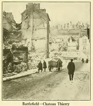 Screen capture showing the destruction on the battlefield in Chateau-Thierry, France, after World War One.